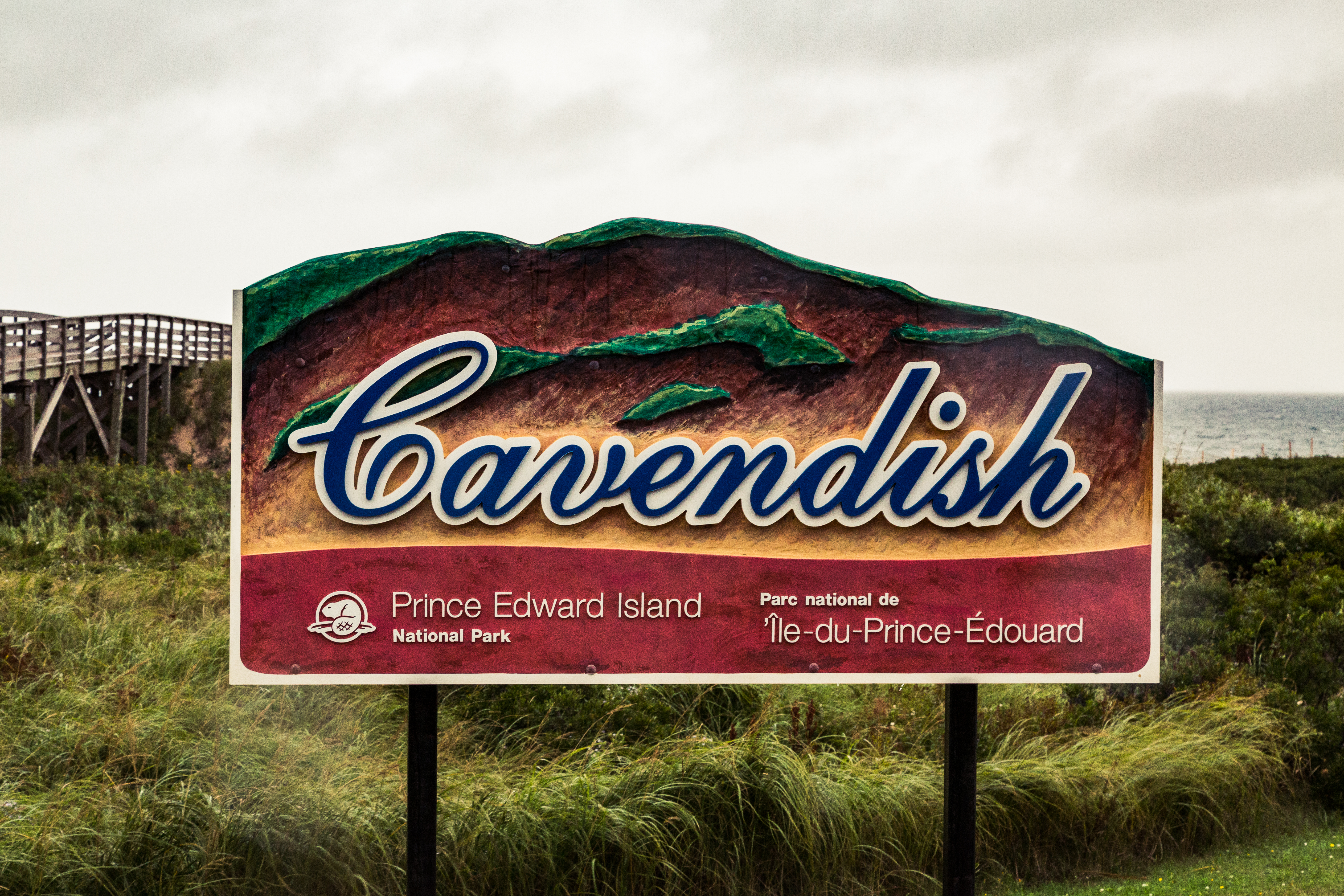 Cavendish along the shores of Prince Edward Island National Park near Green Gables, Canada. Parc national du Canada de l'Île-du-Prince-Édouard